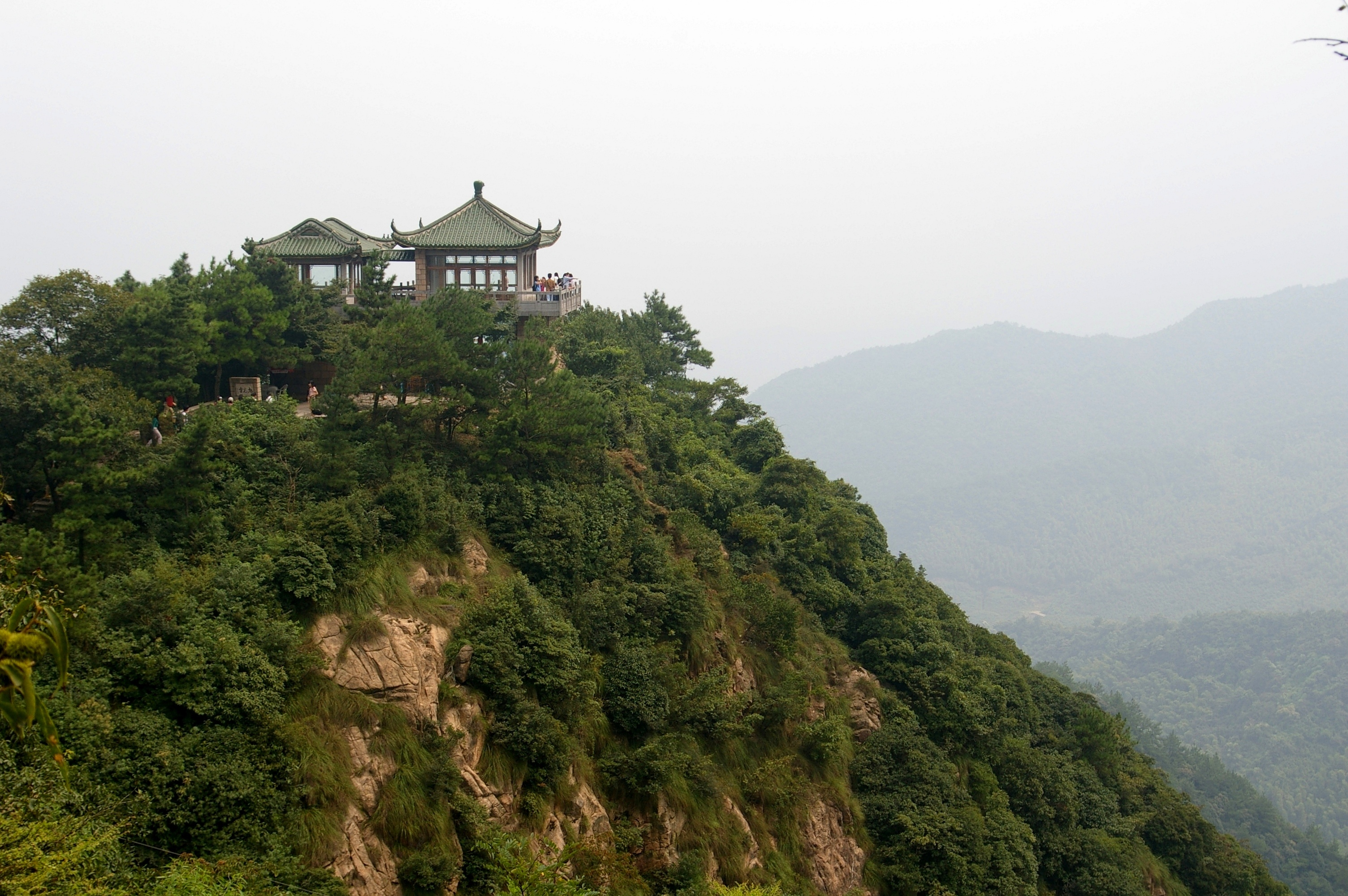 Pavillons at Mount Mogan